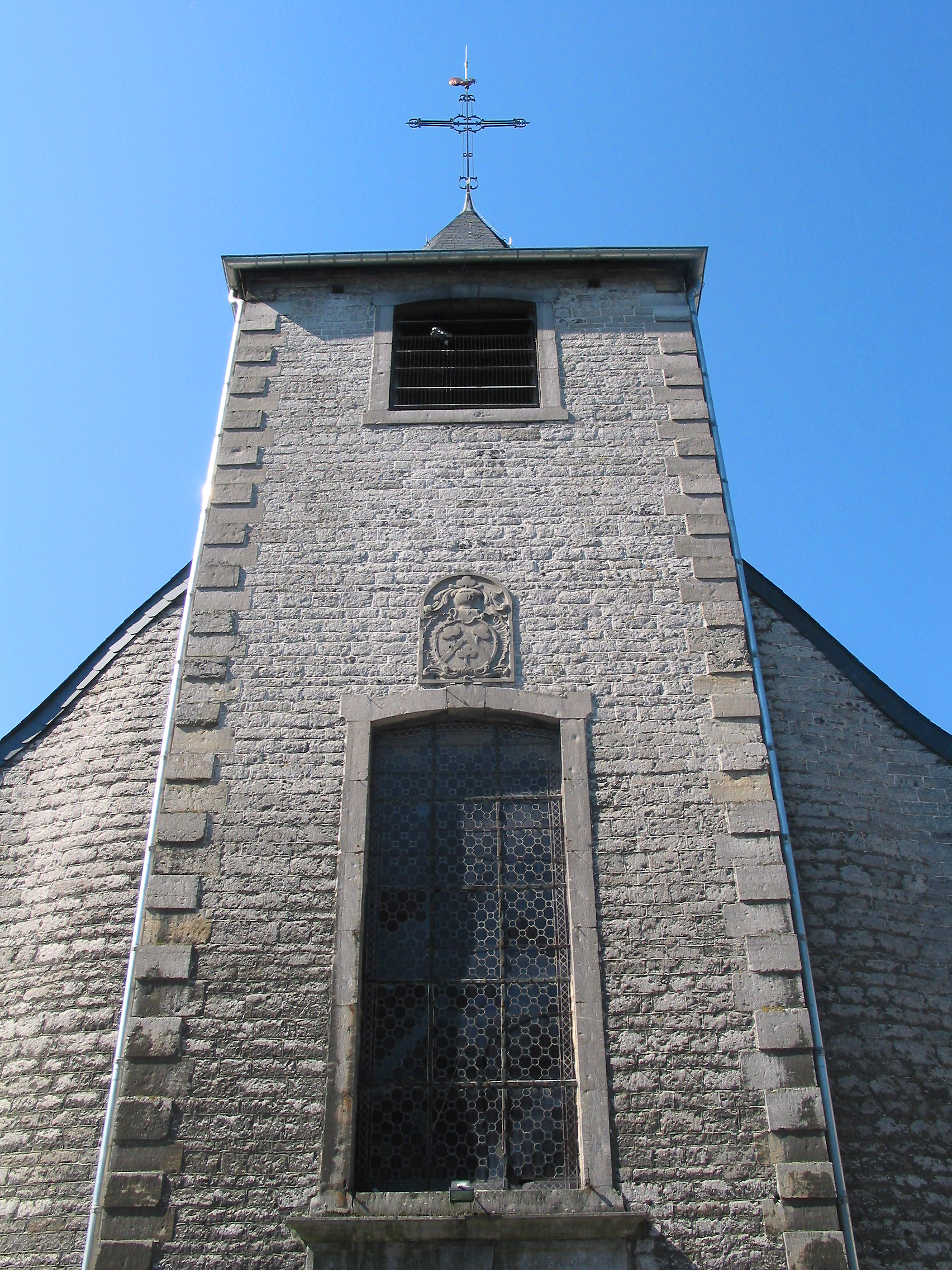 Yvoir (Belgium), the St. Eloi church (1763).